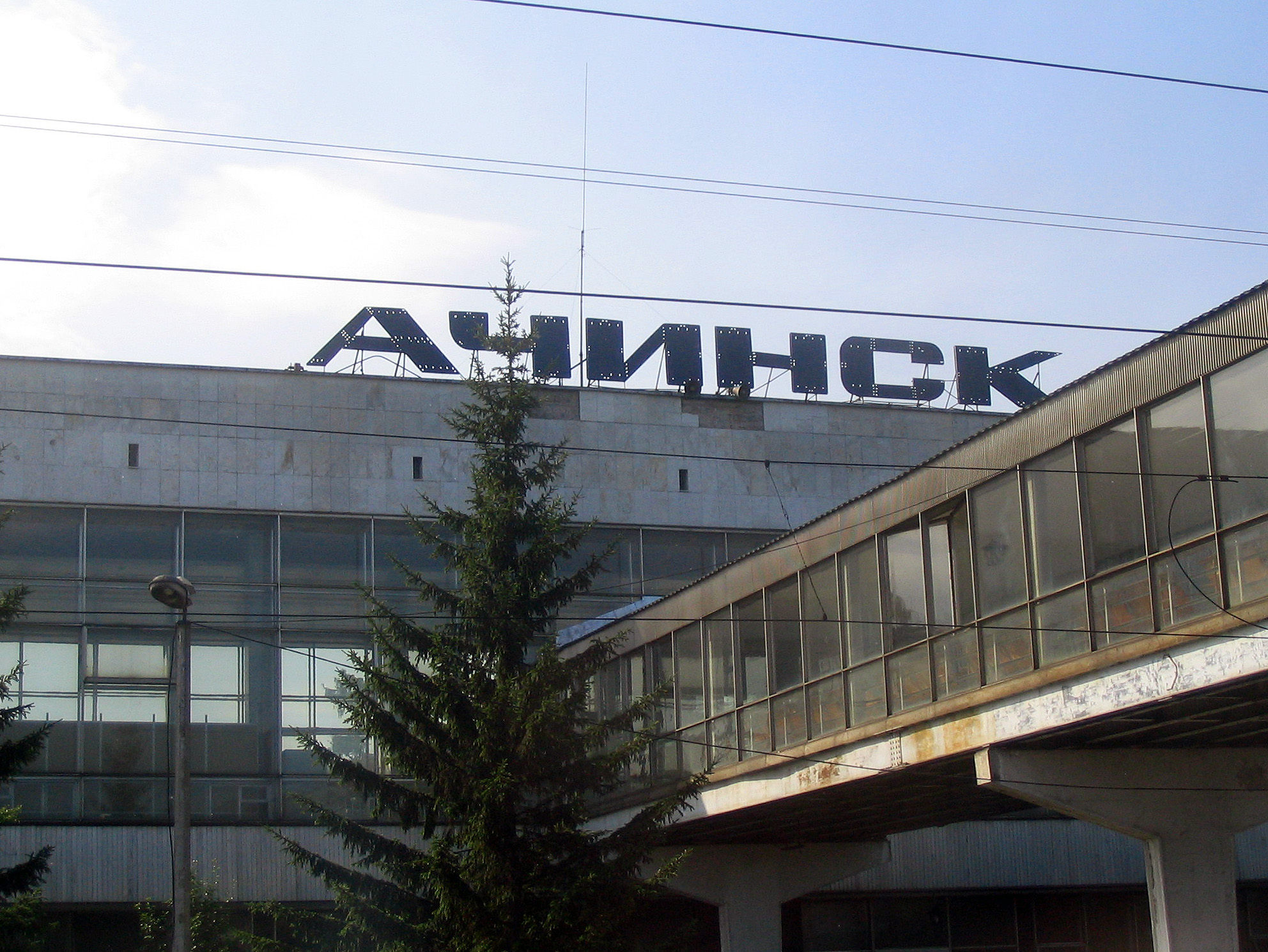 Achinsk station on the trans-Siberian railway in Achinsk, Russia